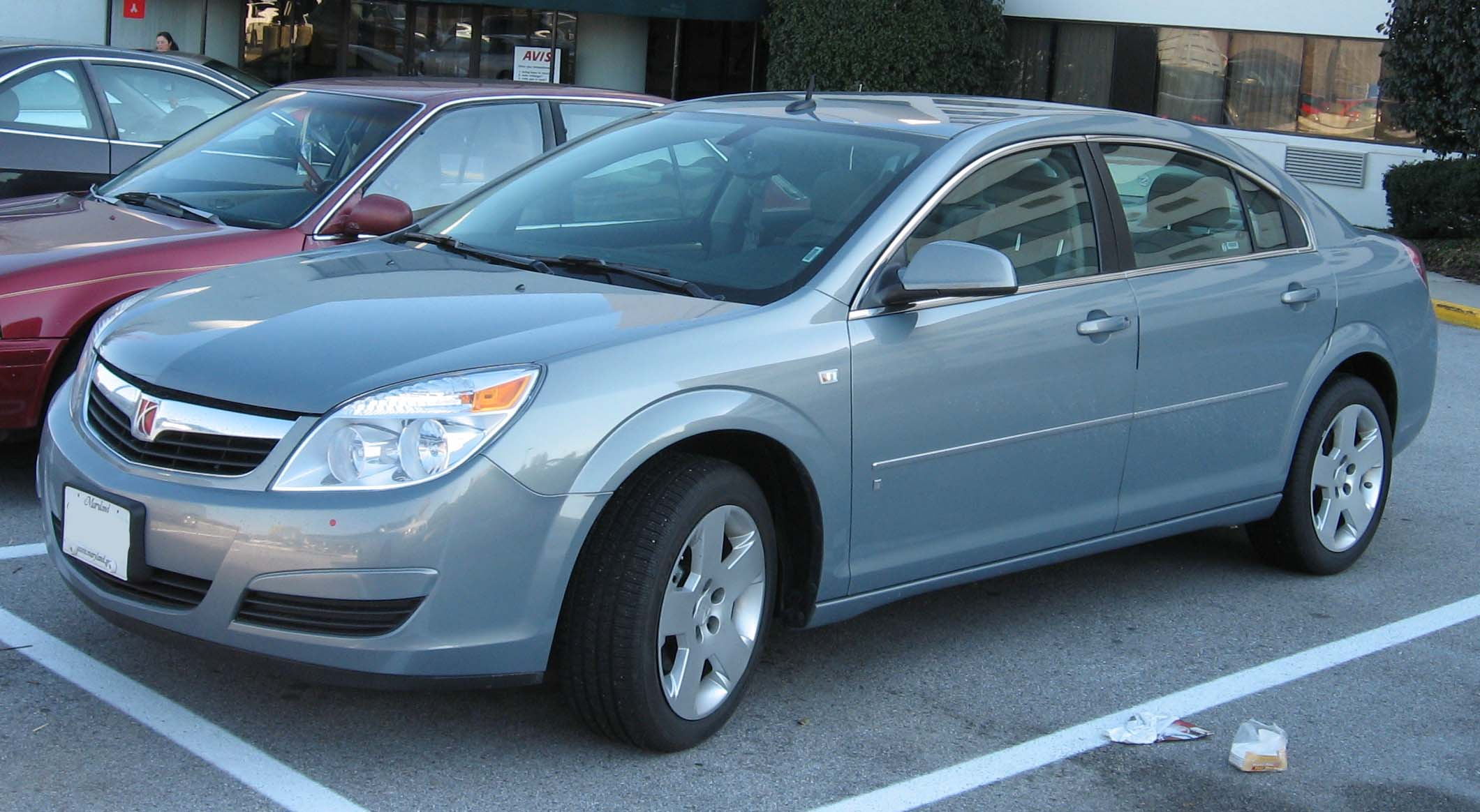 2007 Saturn Aura photographed in USA.